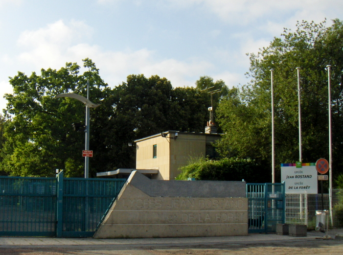 Doorway of Chantilly highschool